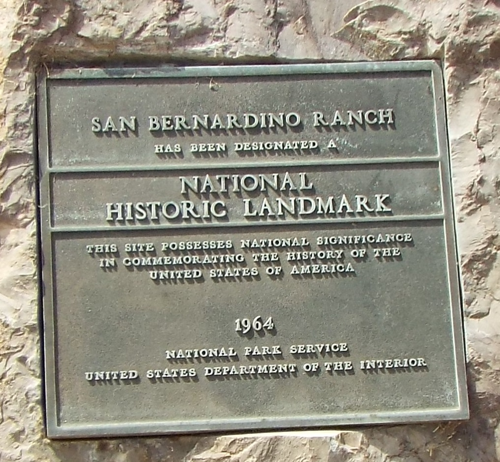 National Historic Landmark marker in the San Bernardino Ranch/Slaughter Ranch in Douglas, Arizona